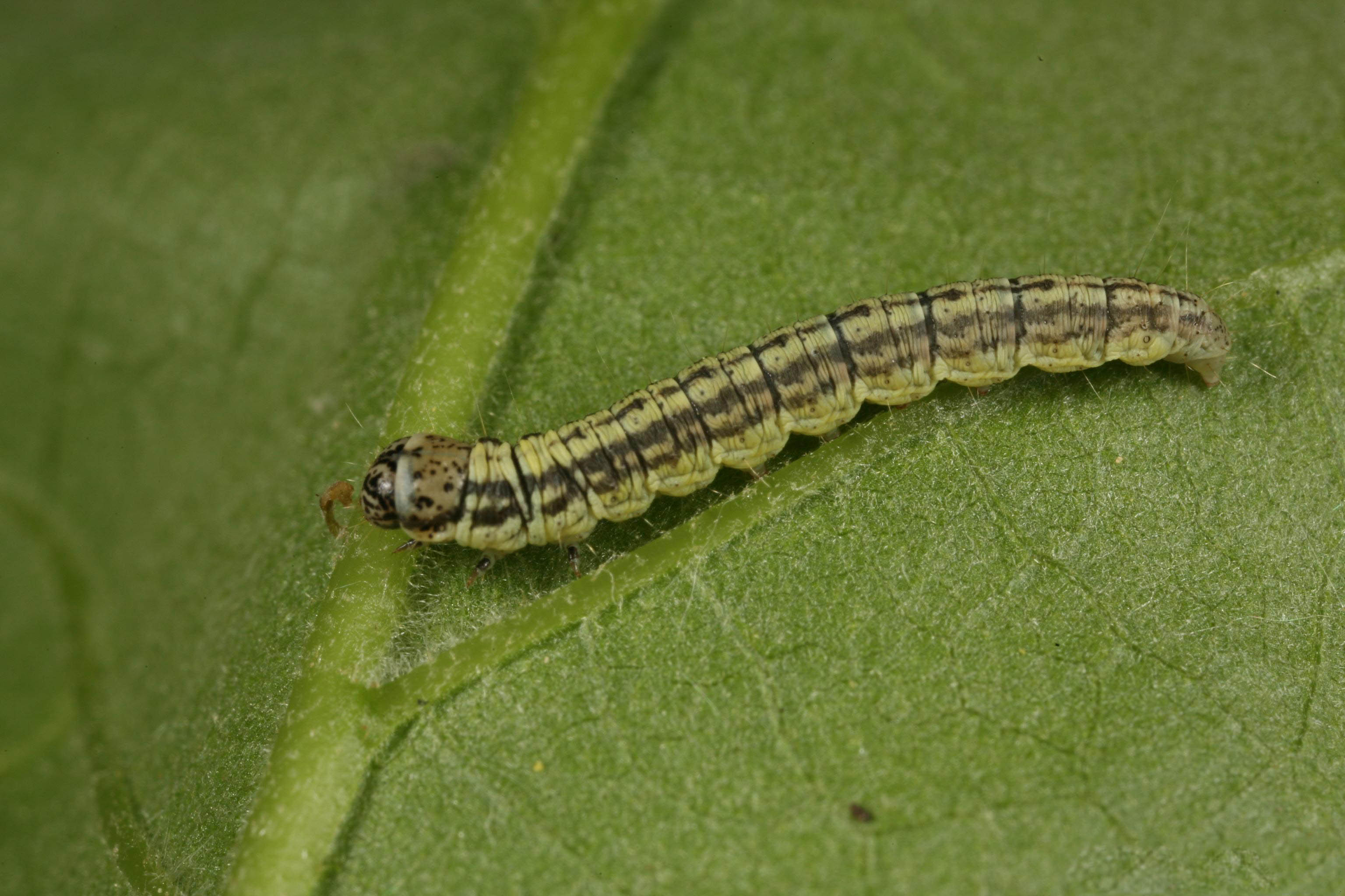 Acrobasis tumidana